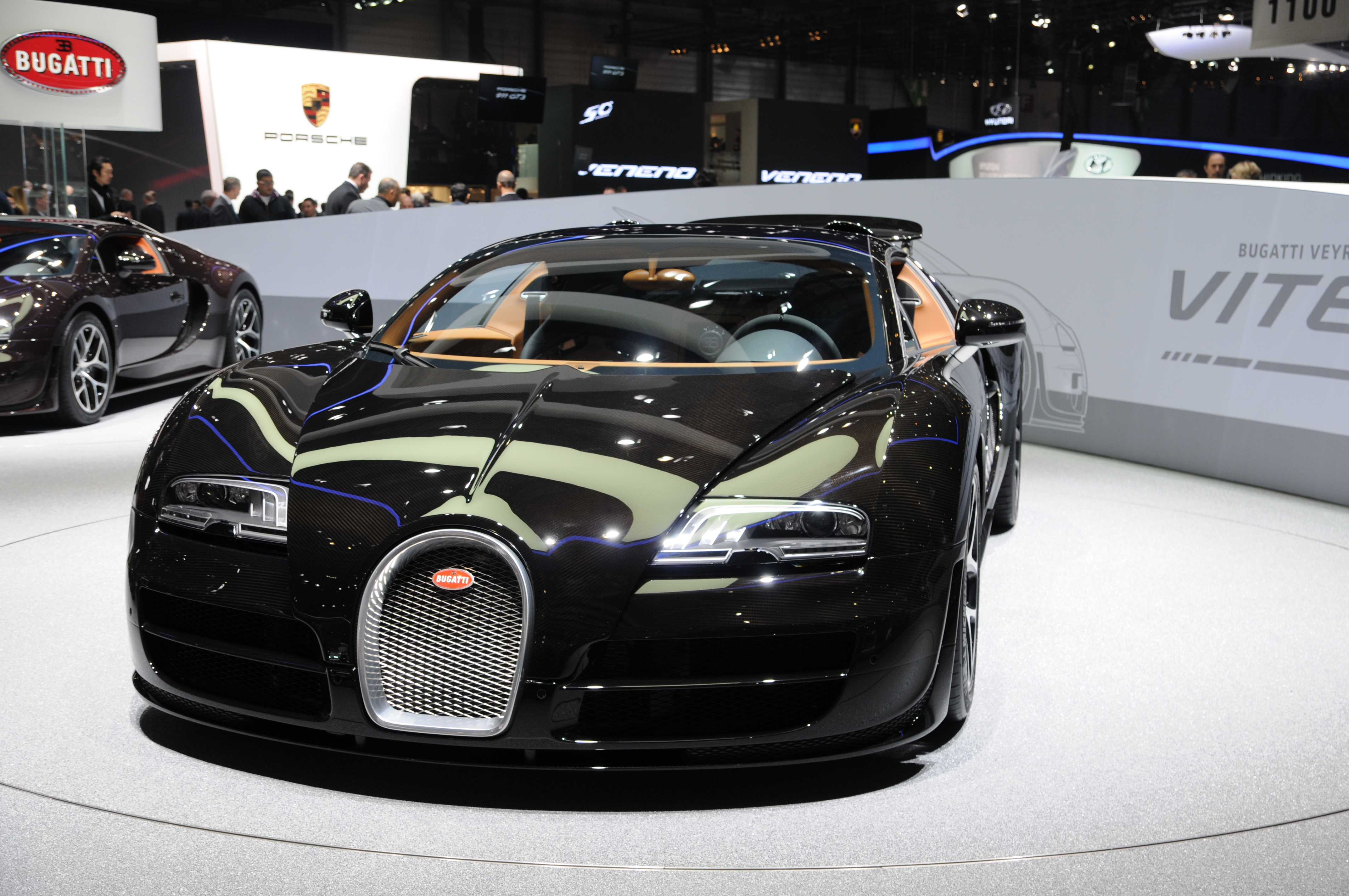 Geneva Motor Show 2013 (photos taken on the first press day)